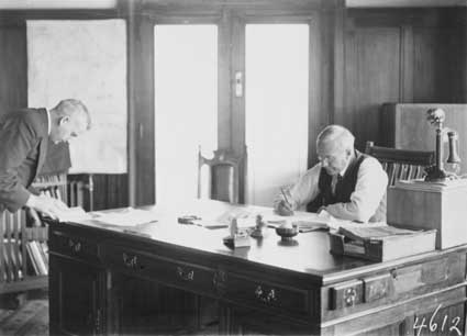 Sir Neville Howse VC, MHR, Minister for Defence in his office., Sep 1928